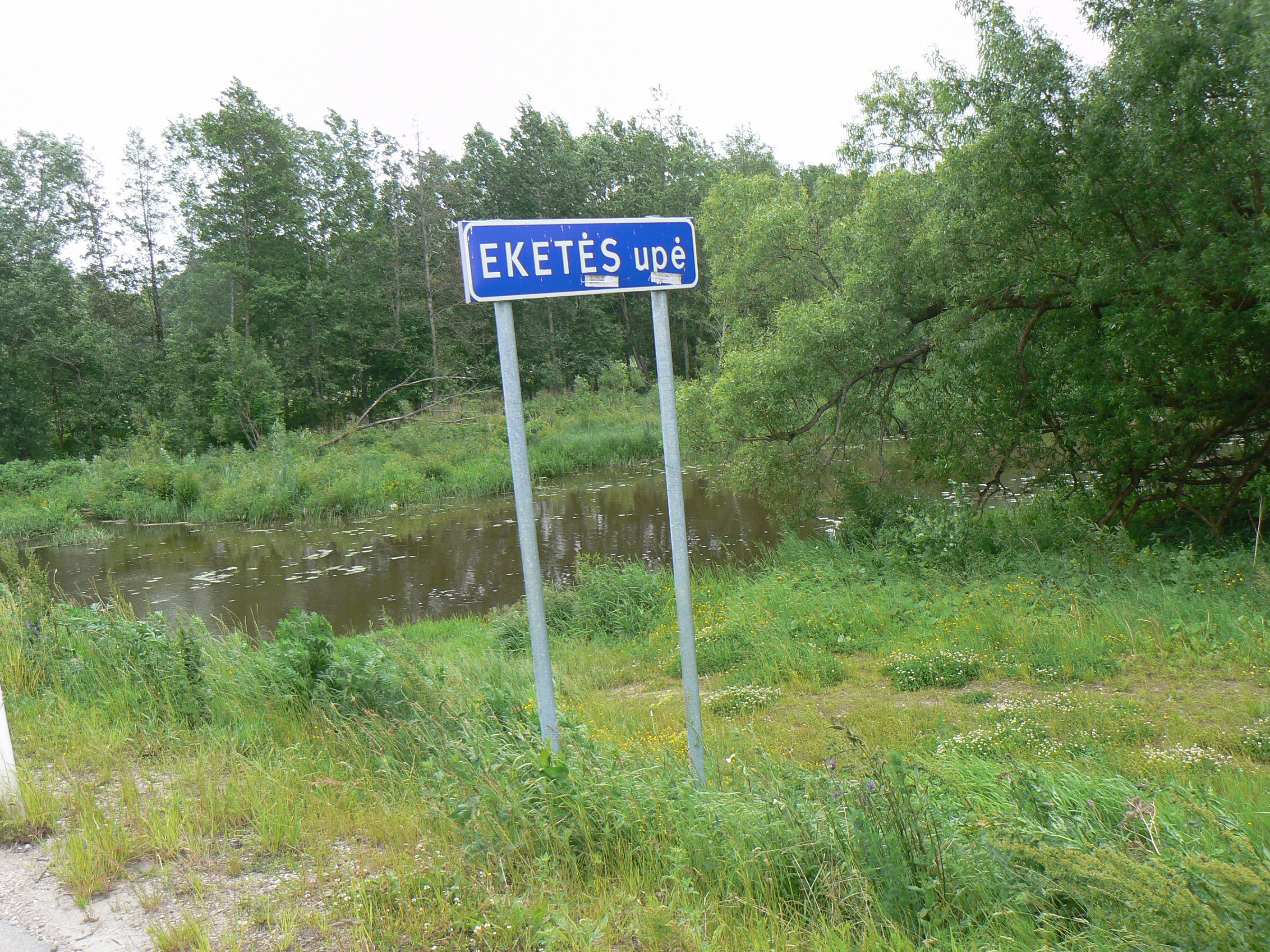 River Eketė (Lithuania) Česky: Most přes řeku Eketė na silnici Mazūriškiai - Radailiai, pohled k severu